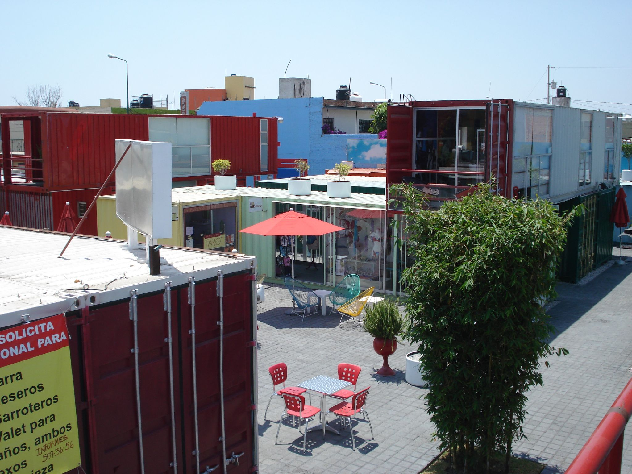 Container City is a complex constructed from large shipping containers, located at the intersection of 12 Oeste and 2 Norte. The idea is from England, but this version was built by a Mexican organization. Fifty of these containers have been joined and painted with bright colors to create 4,500 metres (14,800 ft) of spaces used to house workshops, restaurants, galleries and other businesses. There are even a few homes made of the containers in the area. The hallways have wireless Internet service, a music lounge for visitors, an entertainment area, ping pong tables and more.